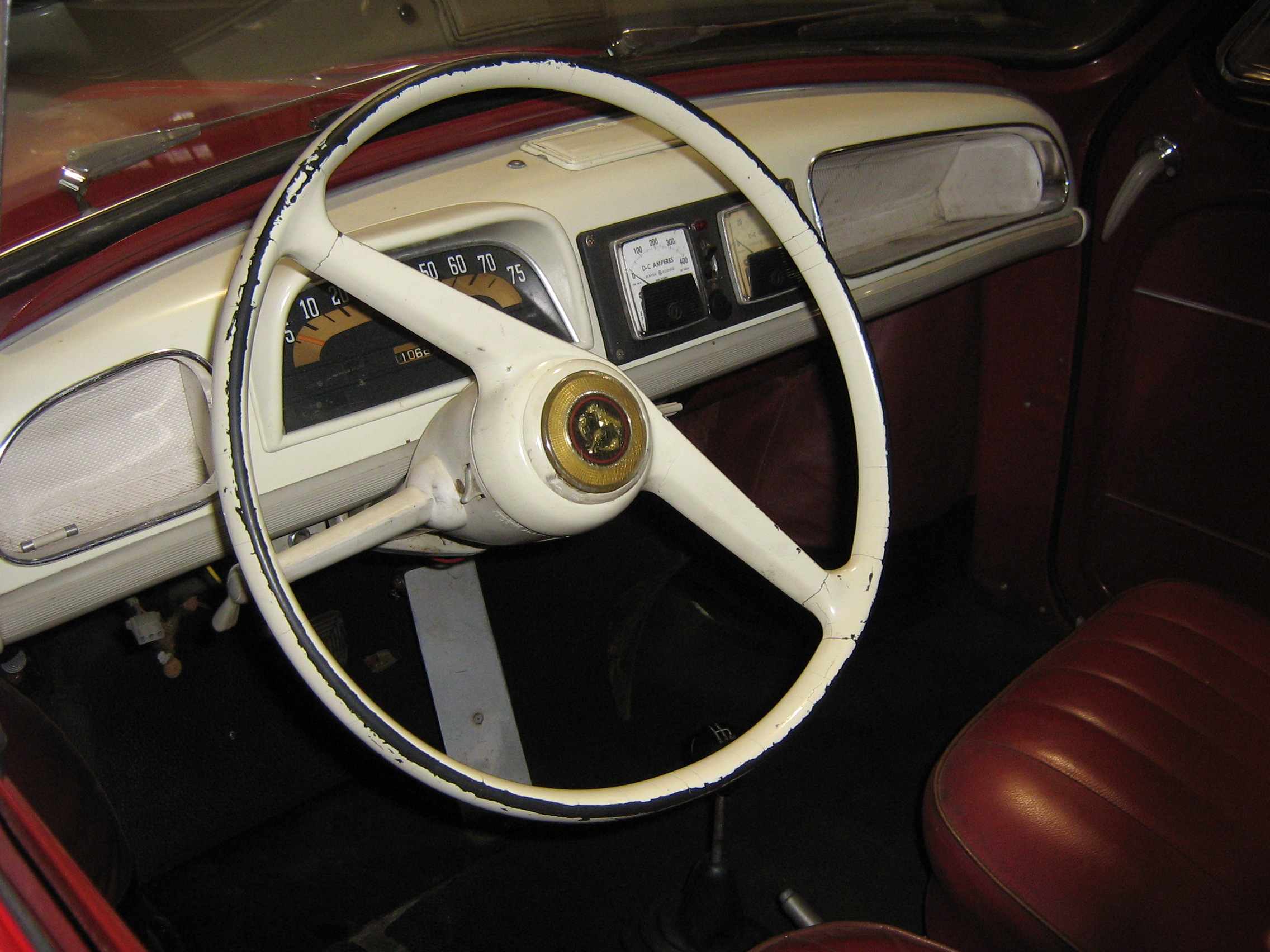 1959 Renault Dauphine Henney, using 36-volt traction battery